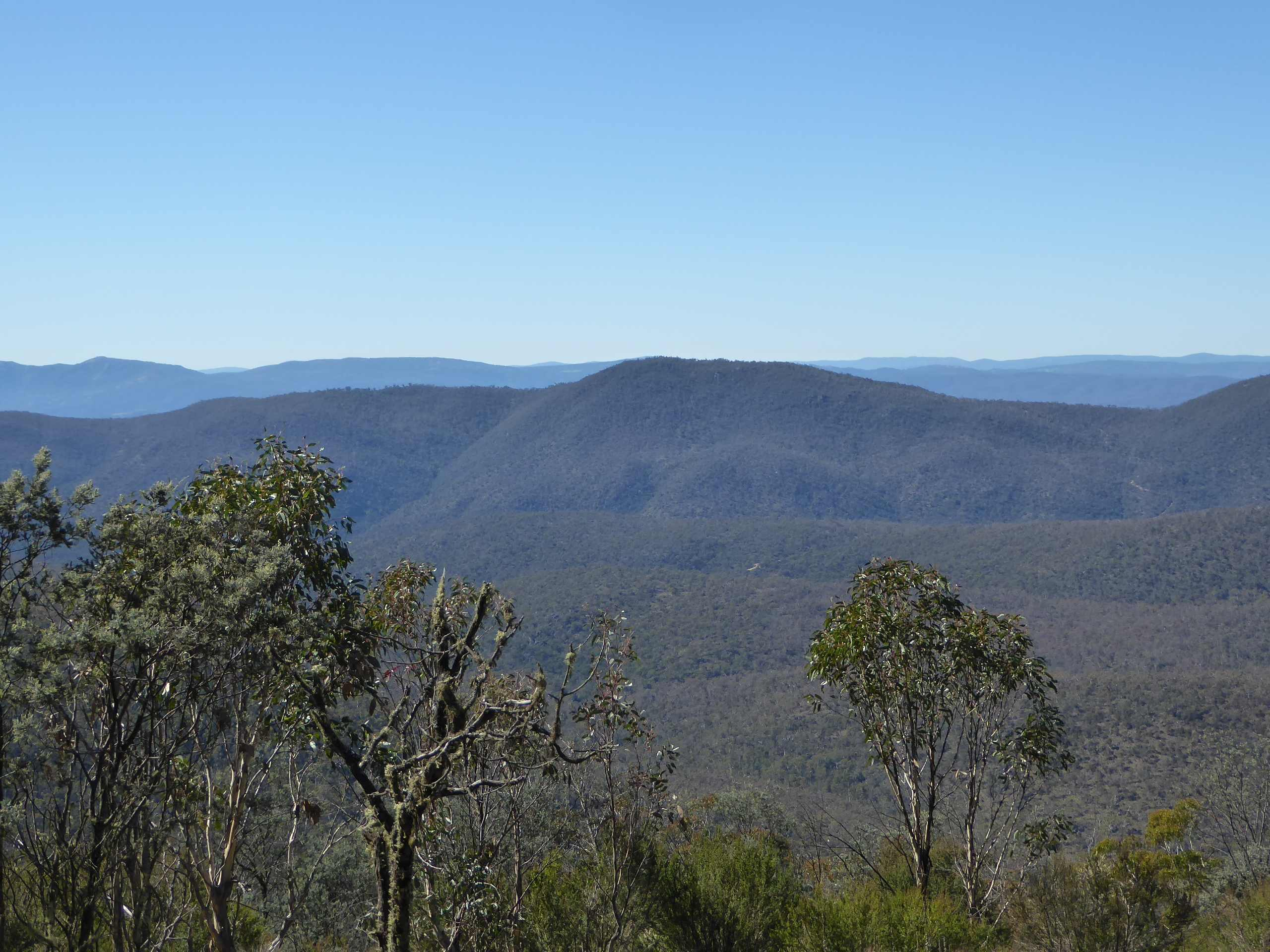 Skyline of the Namadgi National Park